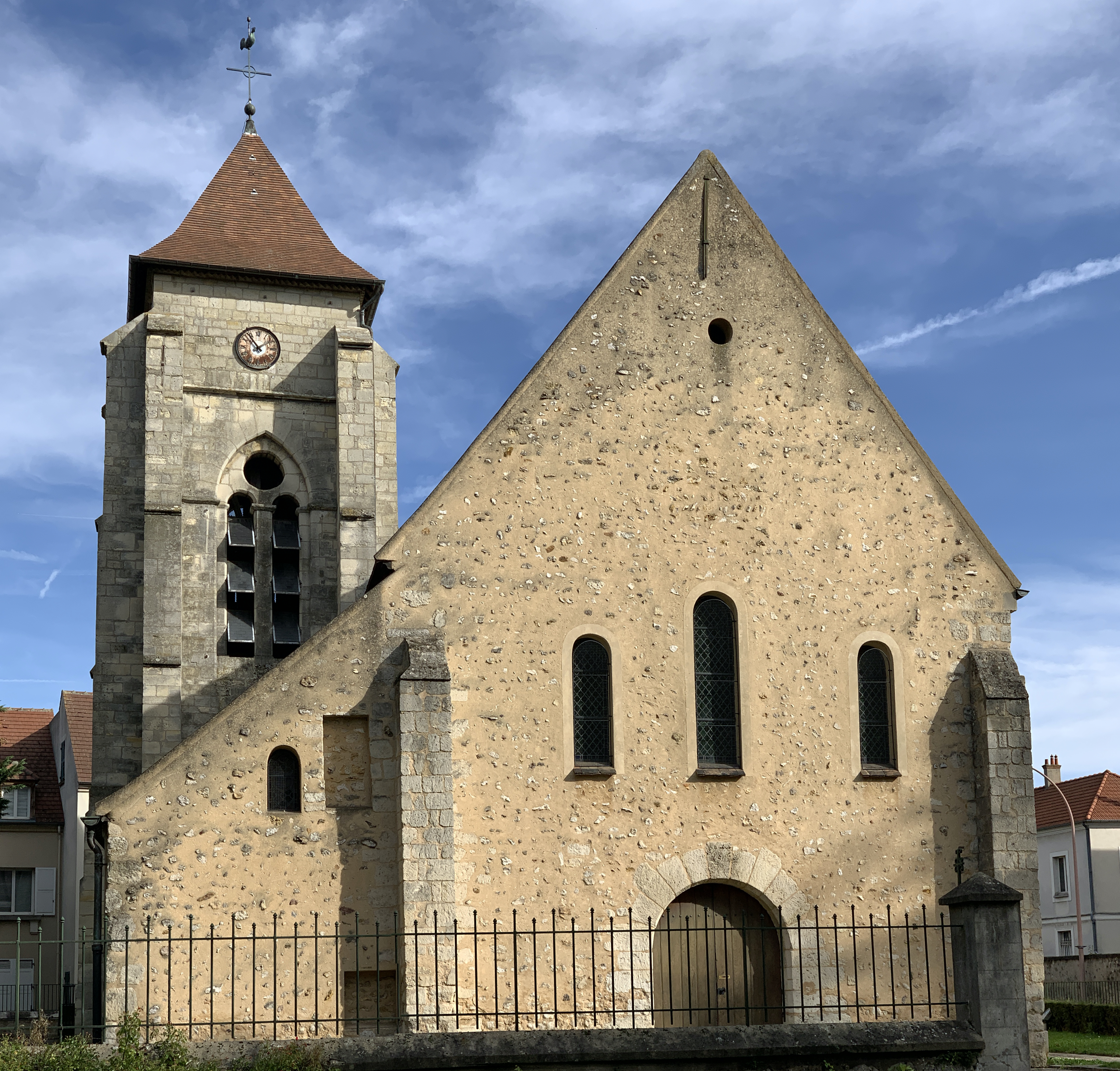 Sainte Colombe church of Chevilly-Larue in Val-de-Marne department, France.